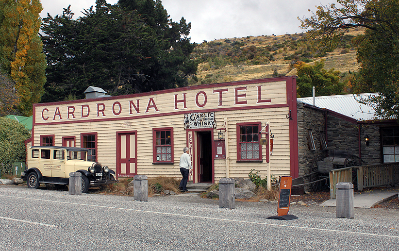 Historic Cardrona Hotel in Central Otago, New Zealand